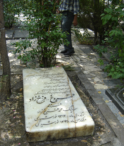 Forough Farrokhzad Tomb